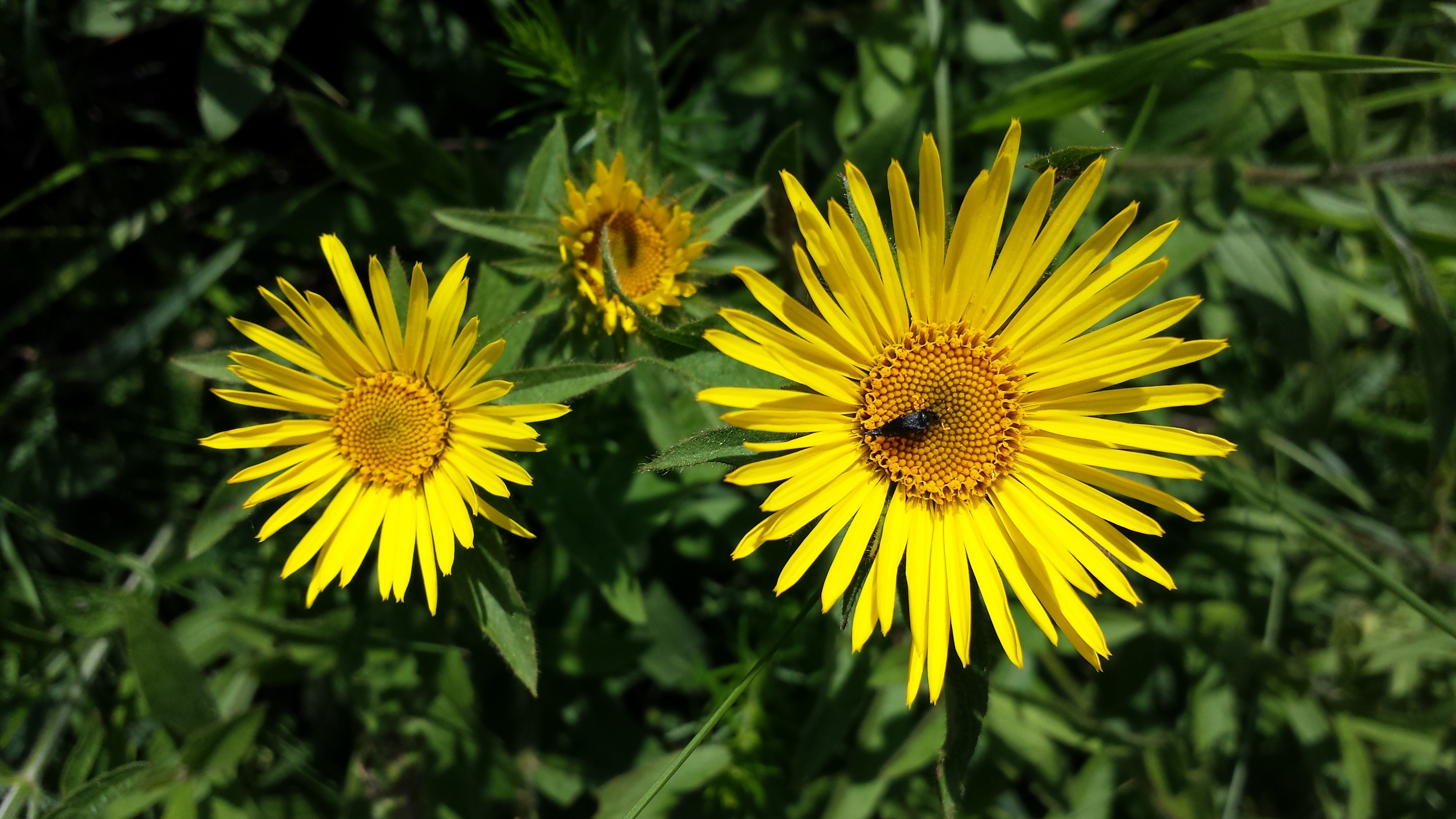 Florescences Taxon: Inula hirta (sensu Fischer et al. EfÖLS 2008 ISBN 978-3-85474-187-9) Location: Alte Schanzen, object XII, Floridsdorf, Vienna - ca. 225 m a.s.l. Habitat: dry grassland